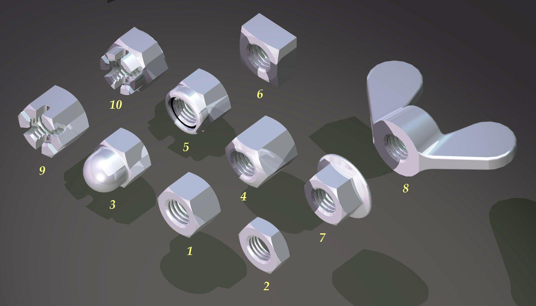 Structural nuts. Same size. Diffenrent kind.